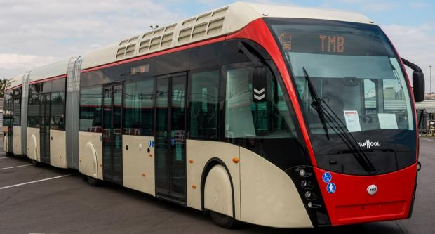 New TMB Bus